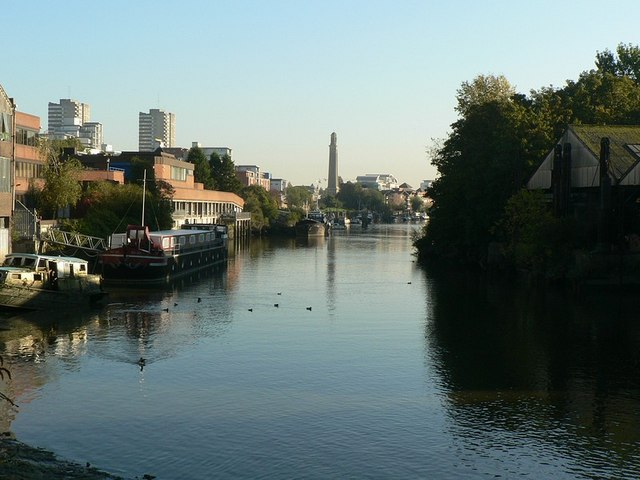 The Thames by Lot's Ait, Brentford Looking east(ish) from Ferry Quays, along the backwater between the Brentford shore of the Thames on the left and Lot's Ait on the right. The island separates this backwater from the main body of the river. The tower in the distance is at Kew Bridge Steam Museum.